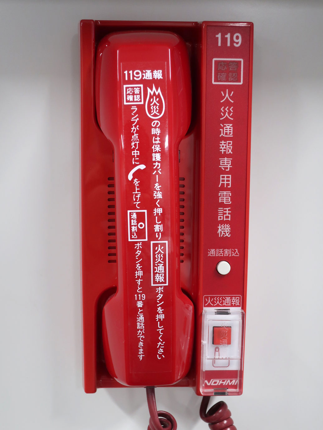 A telephone of Fire alarm auto dialer manufactured by Nohmi Bosai, Ltd.